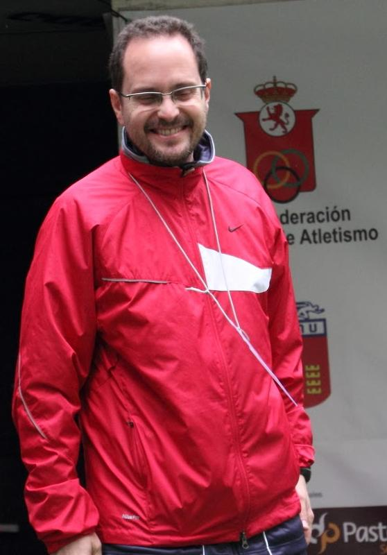 Valentí Massana, spanish racewalker. He participated in the Olympic Games in Barcelona 1992, Atlanta 1996 and Sidney 2000. Photograph taken during the awards ceremony of the Championship of Spain Racewalking 2013, in Murcia.